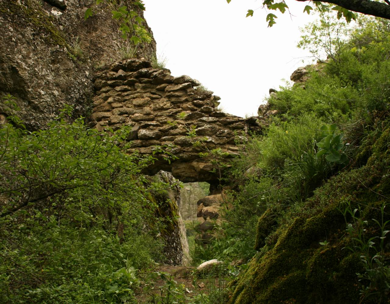 Birtvisi fortress